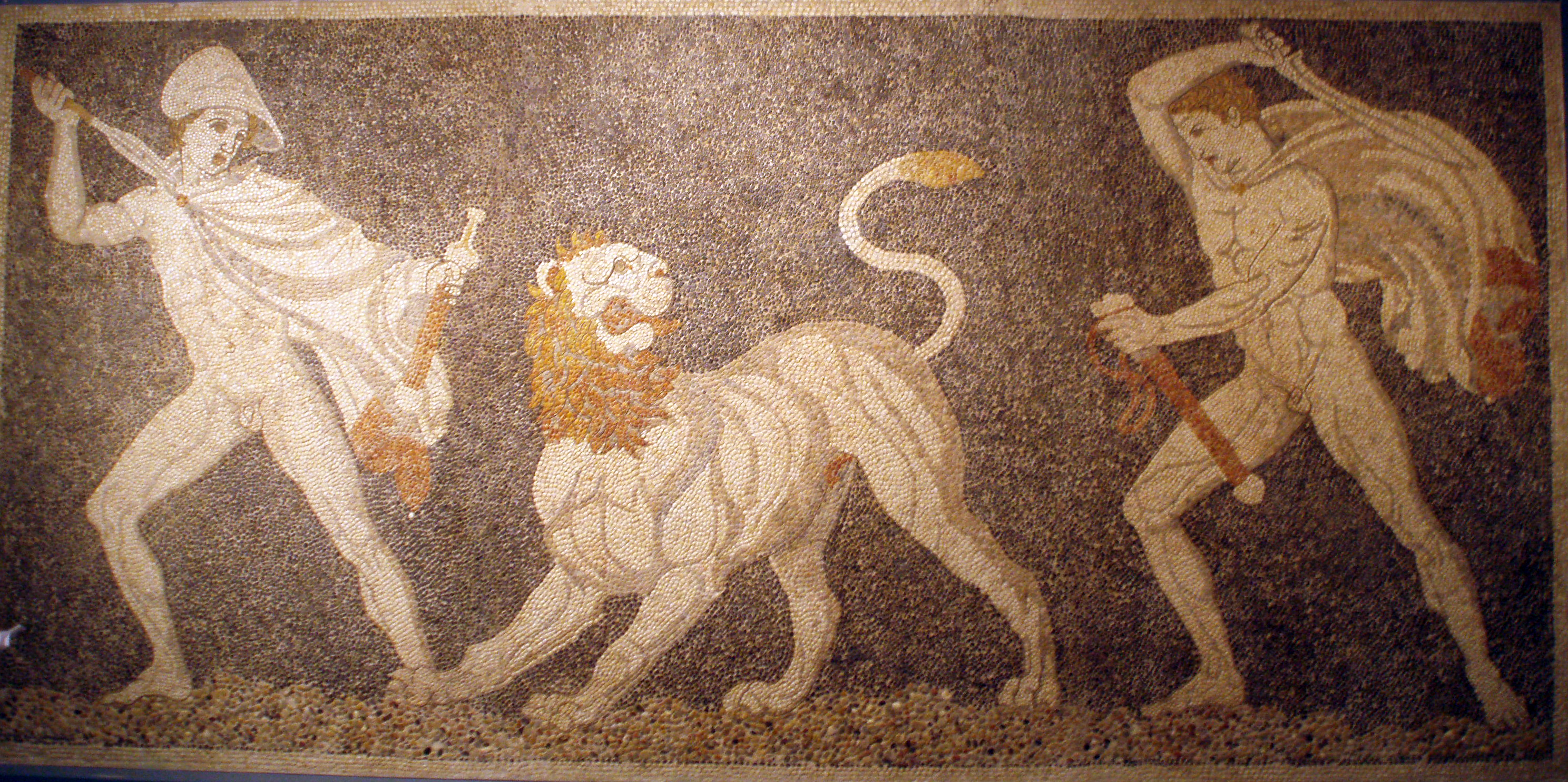 Depiction of Craterus saving Alexander from a Persian lion from Pella, Greece